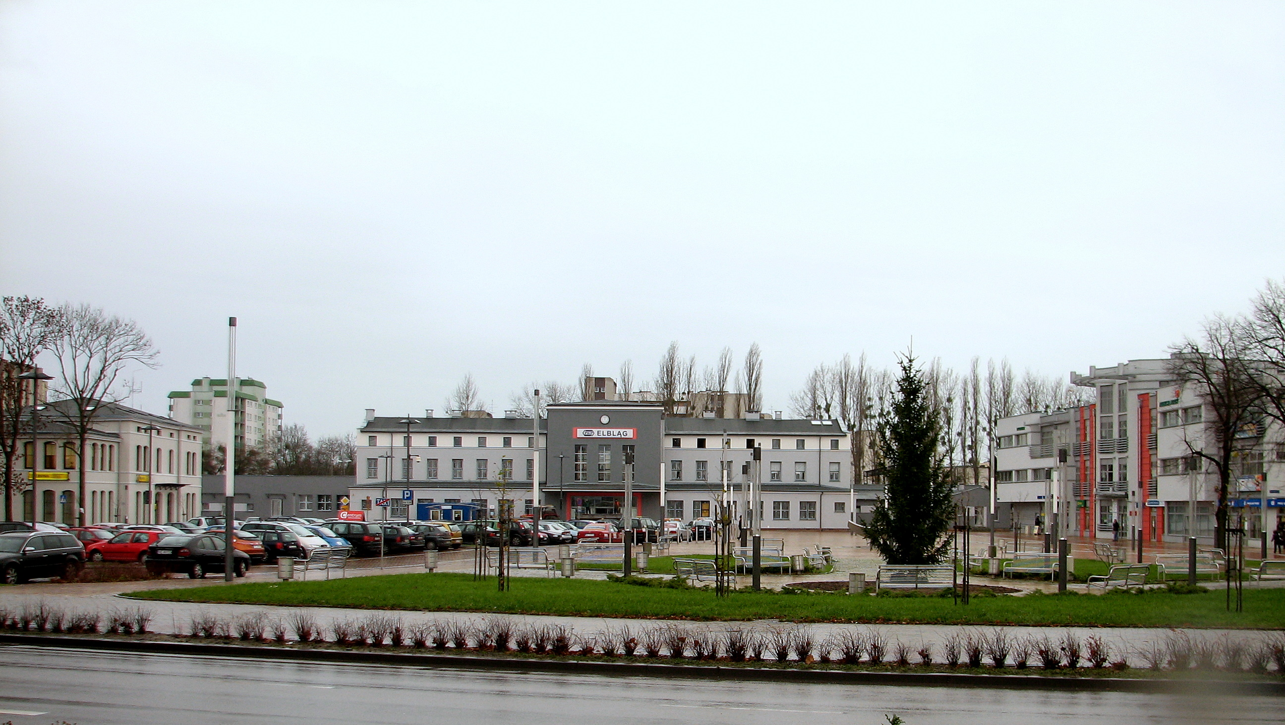 Elbląg train station short time before end of modernization.